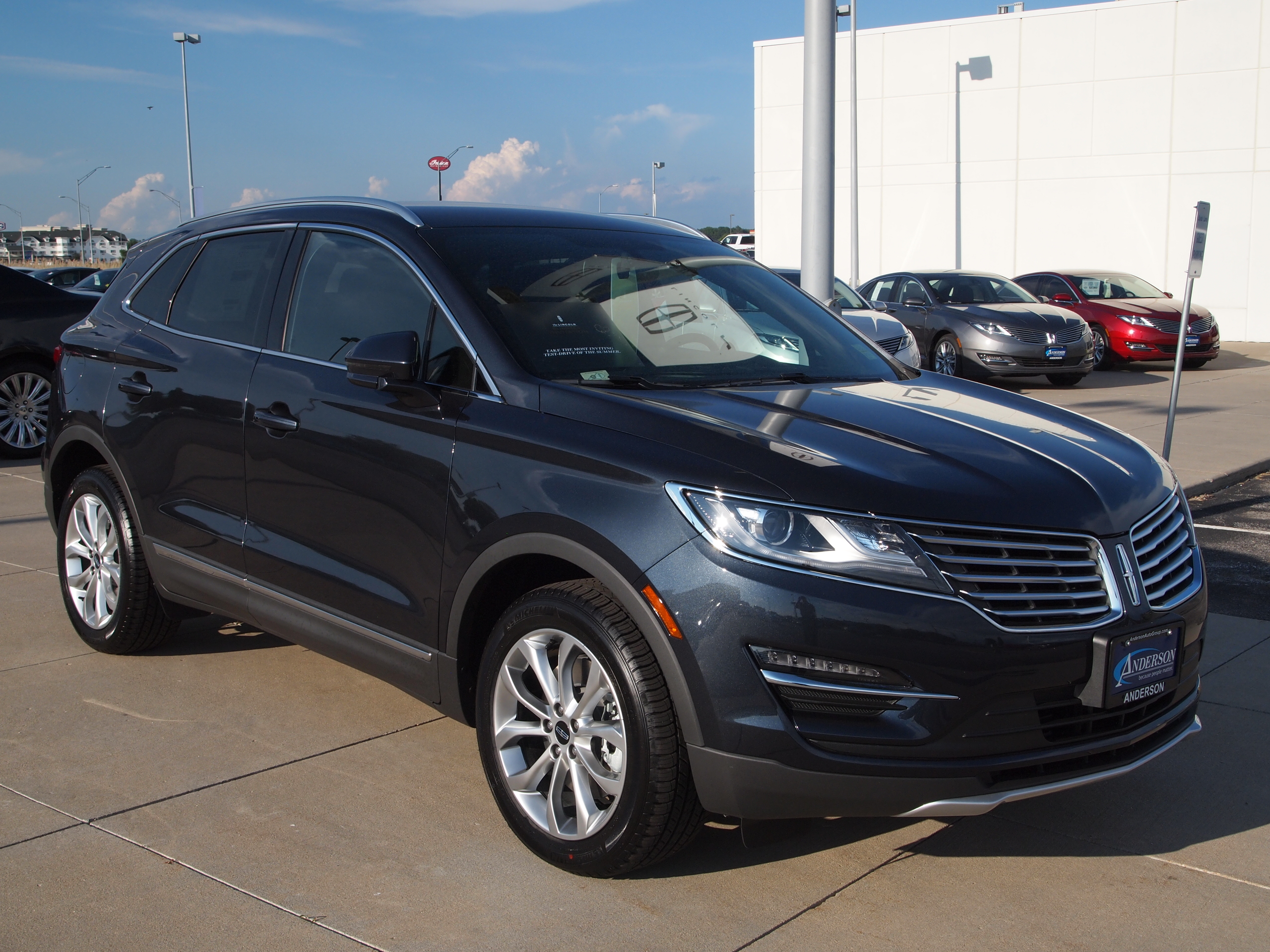 2015 Lincoln MKC